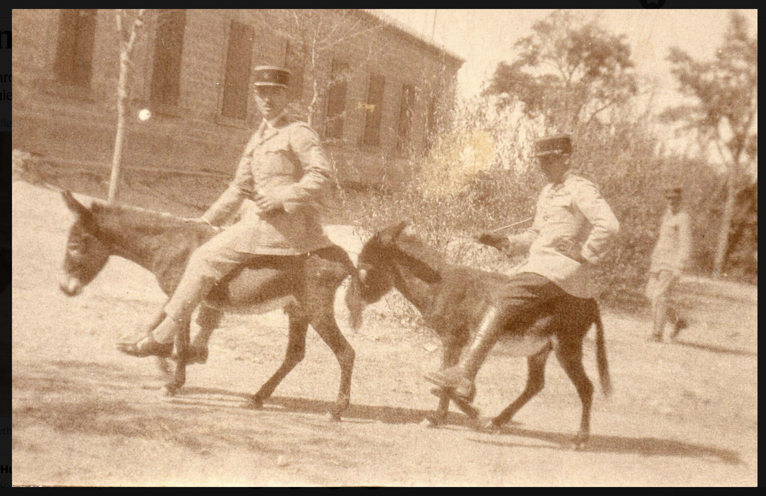 Finnish Foreign Legion officer Adi Stenroth riding a donkey (front)